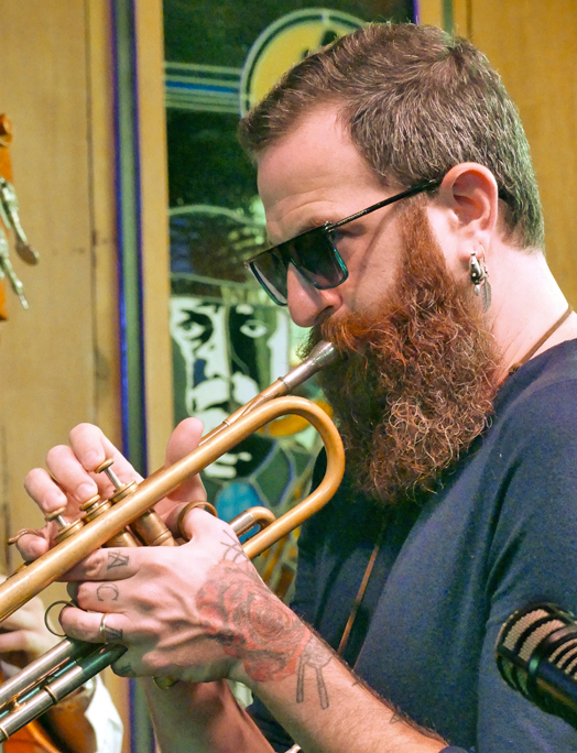 Avishai Cohen at Bach Dancing & Dynamite Society, Half Moon Bay CA 9/10/17. Photo: Brian McMillen / w/Gadi Lehavi, p; Barak Mori, b; Marcus Gilmore, d.